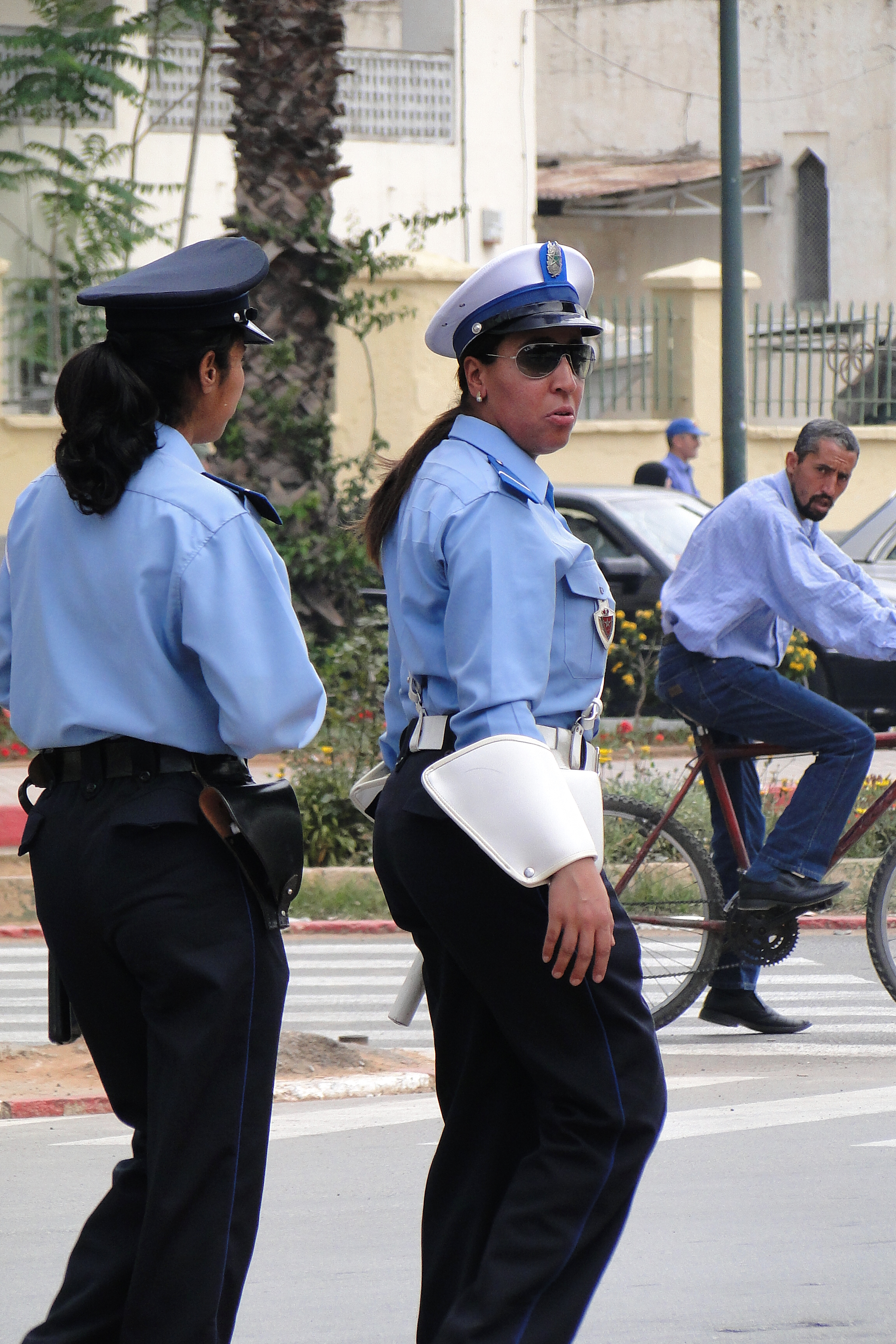 Female Traffic Cops on the Beat - Nouvelle Ville (New City) - Meknes - Morocco